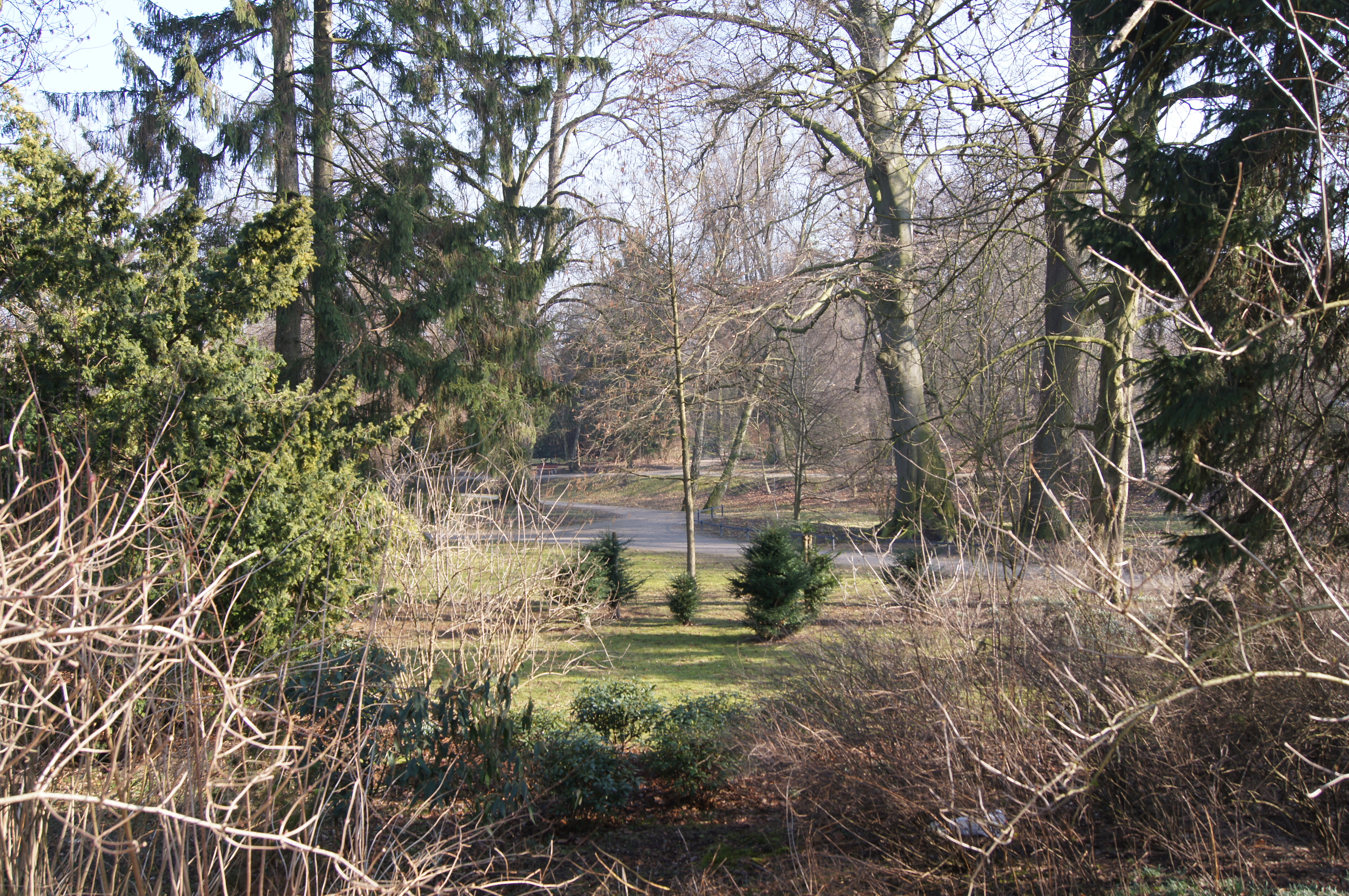 Park Sentmaring is a public urban park in Münster, Germany.